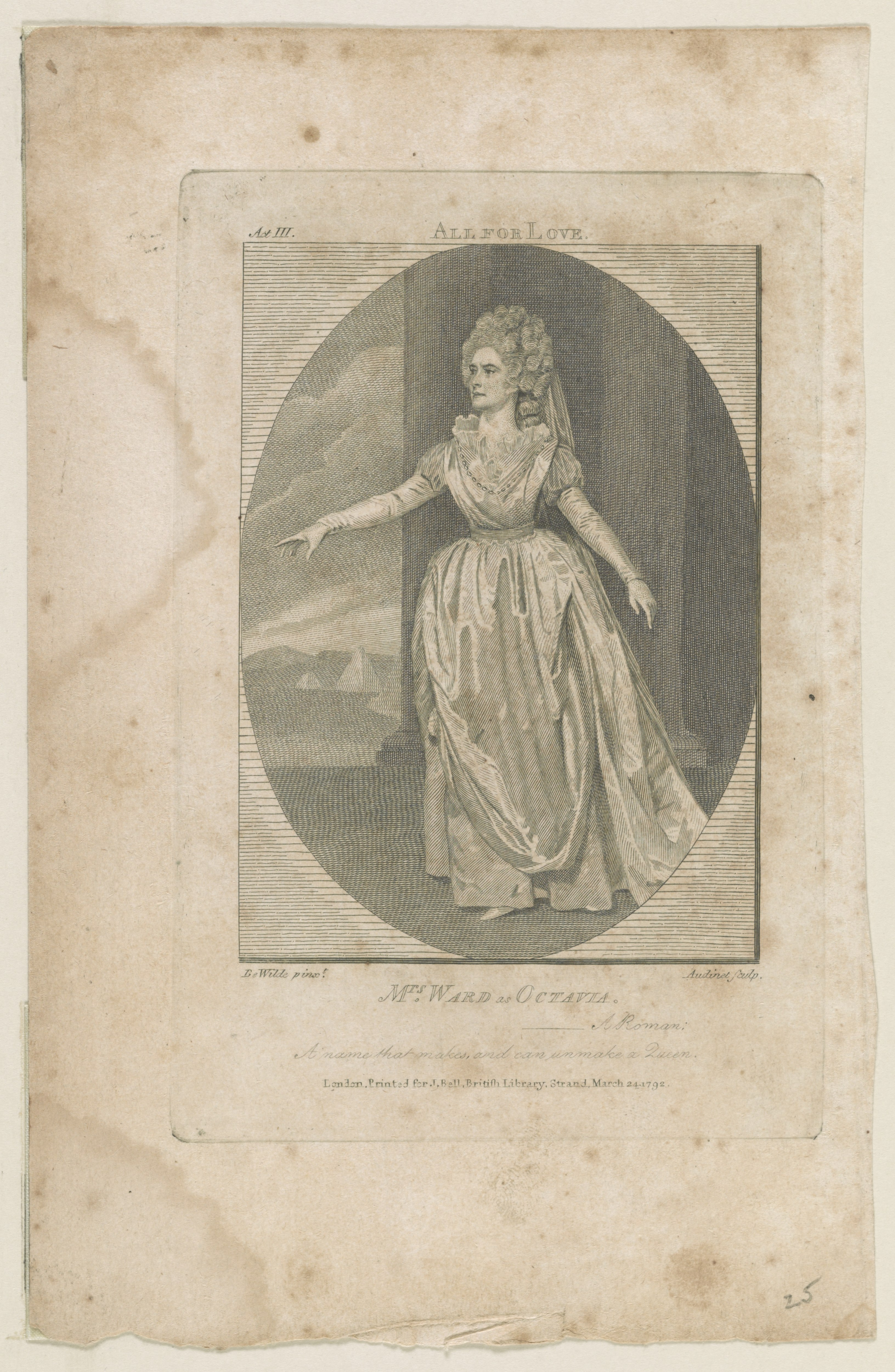 Title: Mrs. Ward as Octavia in All for Love Physical description: 1 print. Notes: This record contains unverified data from PGA shelflist card.; Associated name on shelflist card: Audinet.